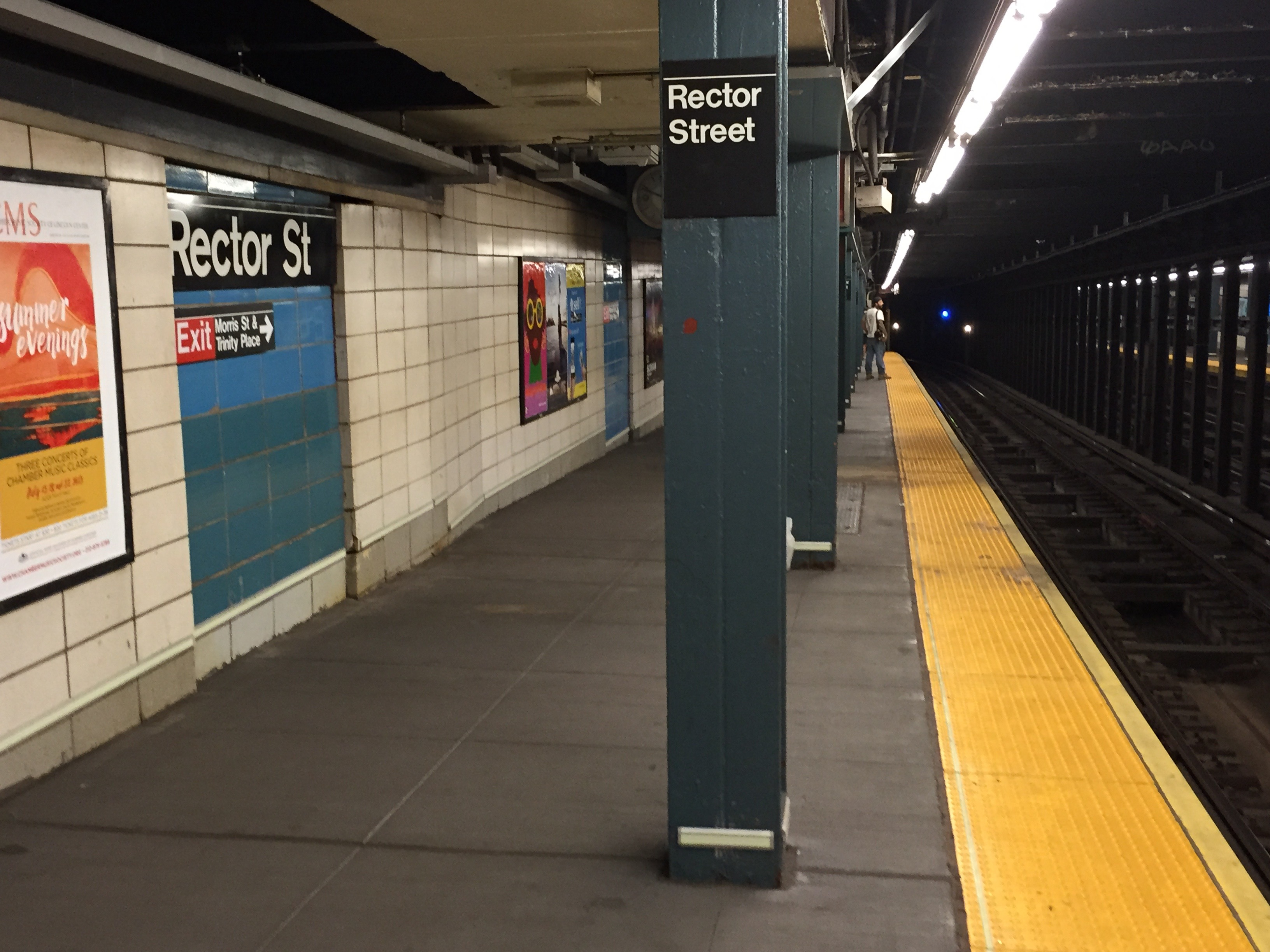 Uptown platform at Rector Street on the R